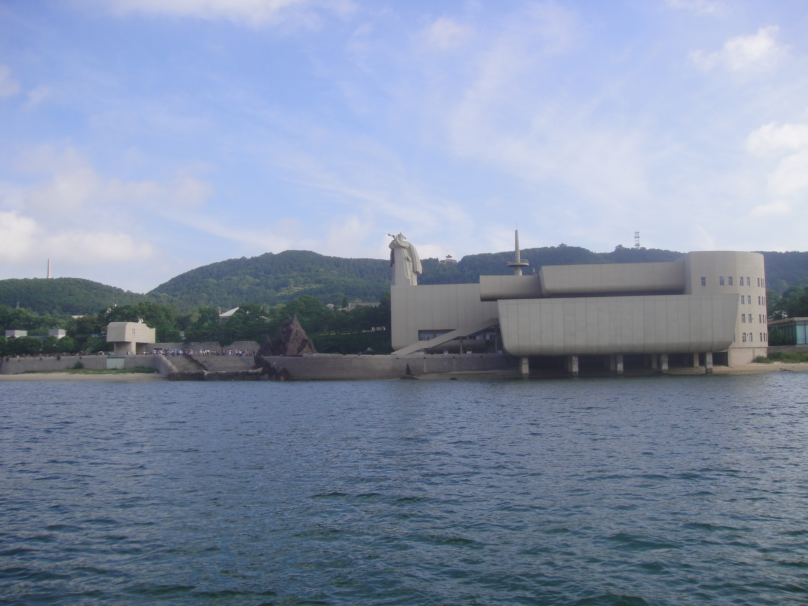 China Sino-Japanese War Museum